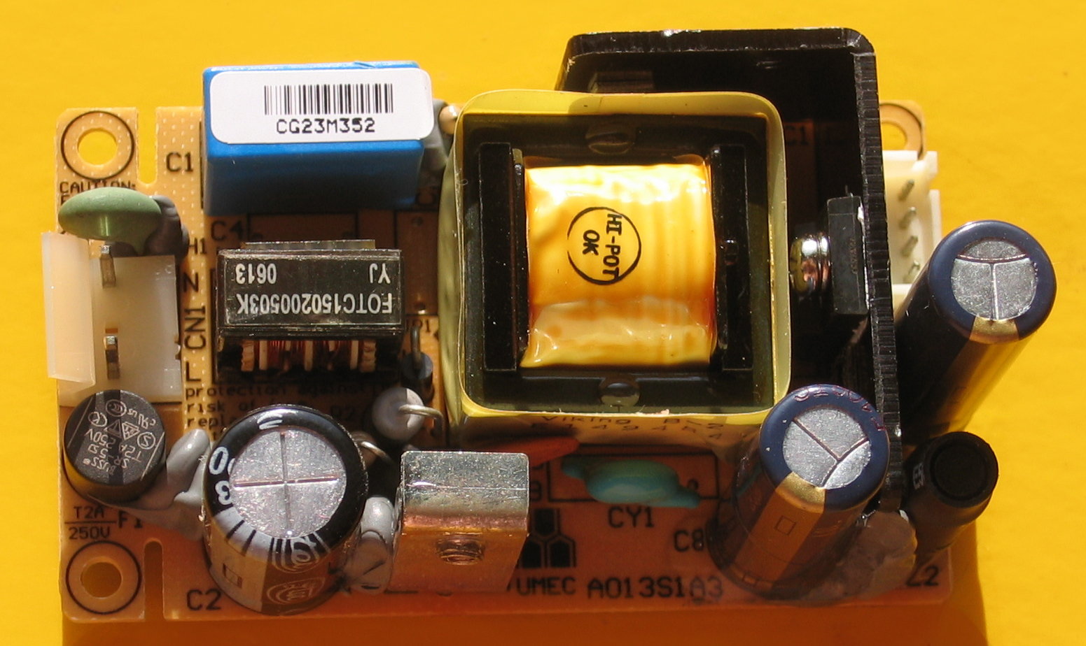 Repaired 3V3 switching-mode power supply. The device is used in a managed ethernet switch